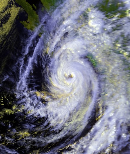 Hurricane Paine on October 1 at approximately 2218 UTC. This image was produced from data from NOAA-9, provided by NOAA.